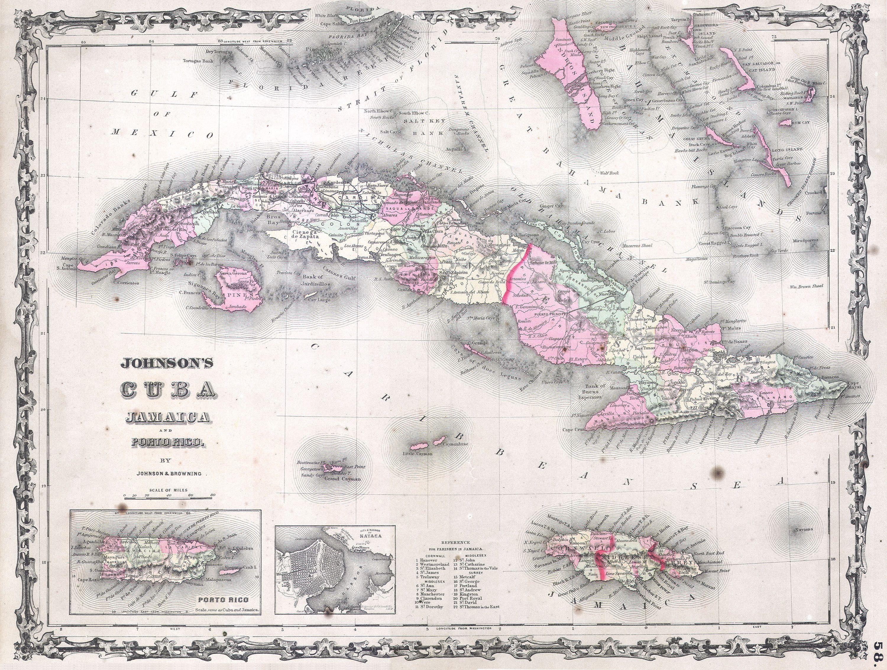 This is a beautifully hand colored 1861 map of the West India islands of Cuba, Jamaica and Puerto Rico by A. J. Johnson. Covers from the Florida Keys south through the Cayman Islands to Jamaica and west to the Bahamas. There is an inset map of Puerto Rico.